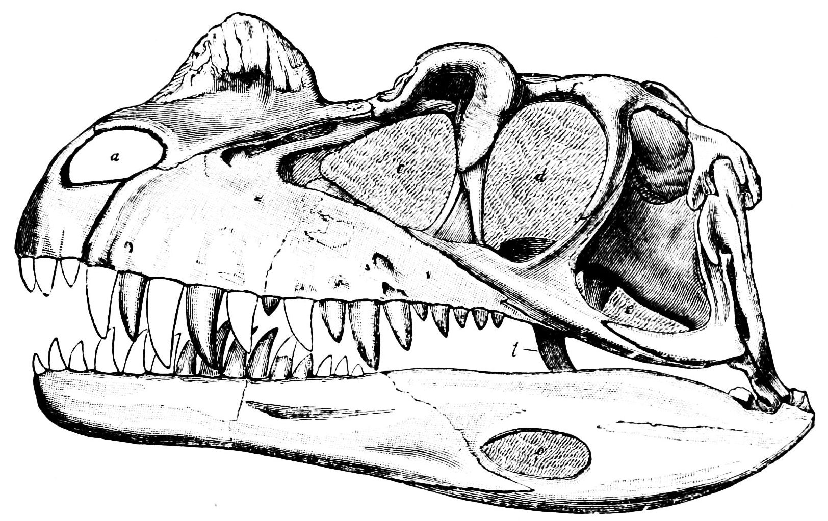 Skull of Ceratosaurus